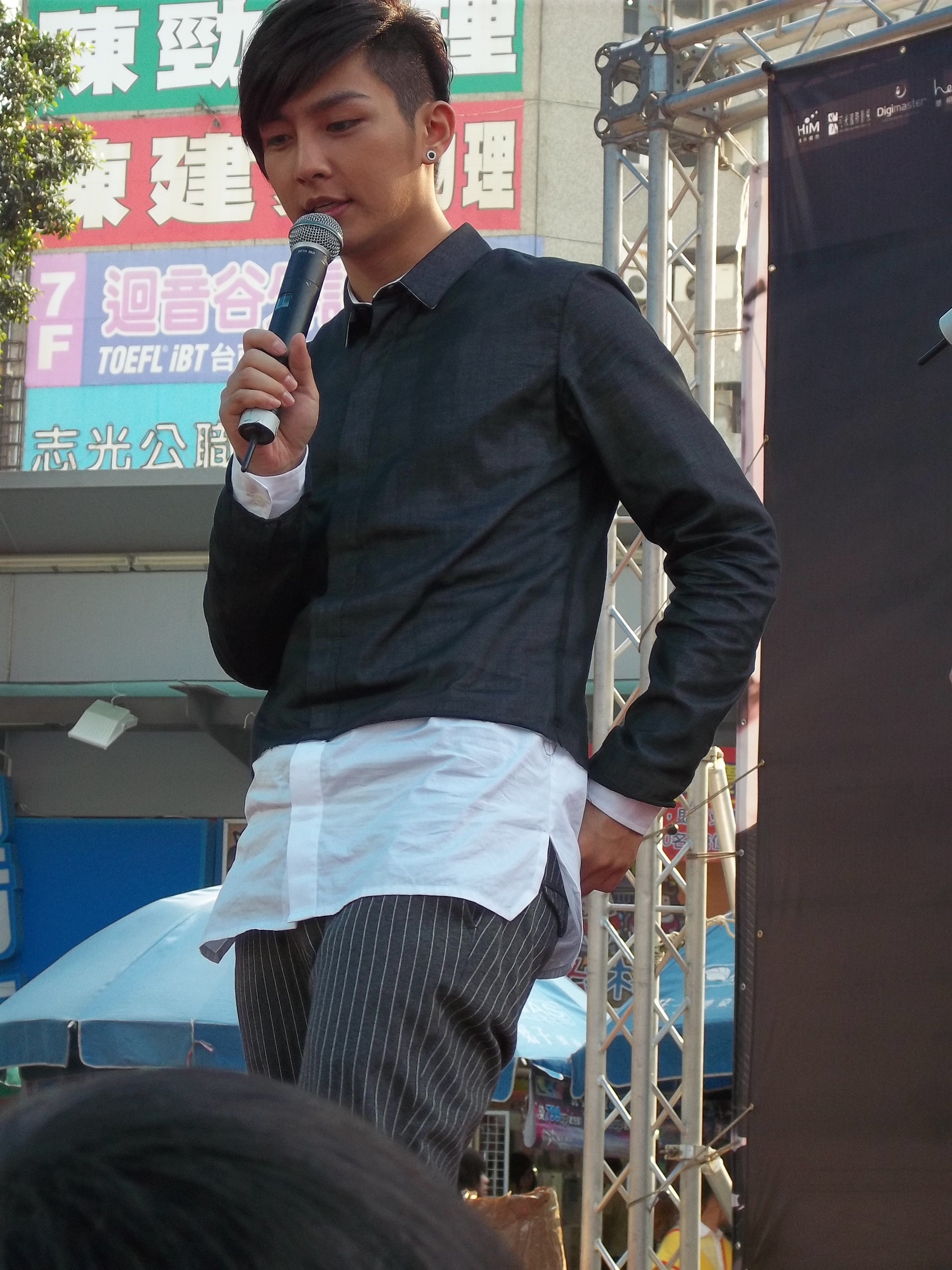 Aaron Yan中文（台灣）: 炎亞綸在台南南方公園的《下一個炎亞綸》簽唱會